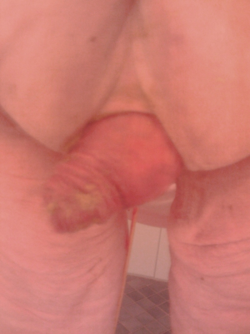 Large rectal prolaps